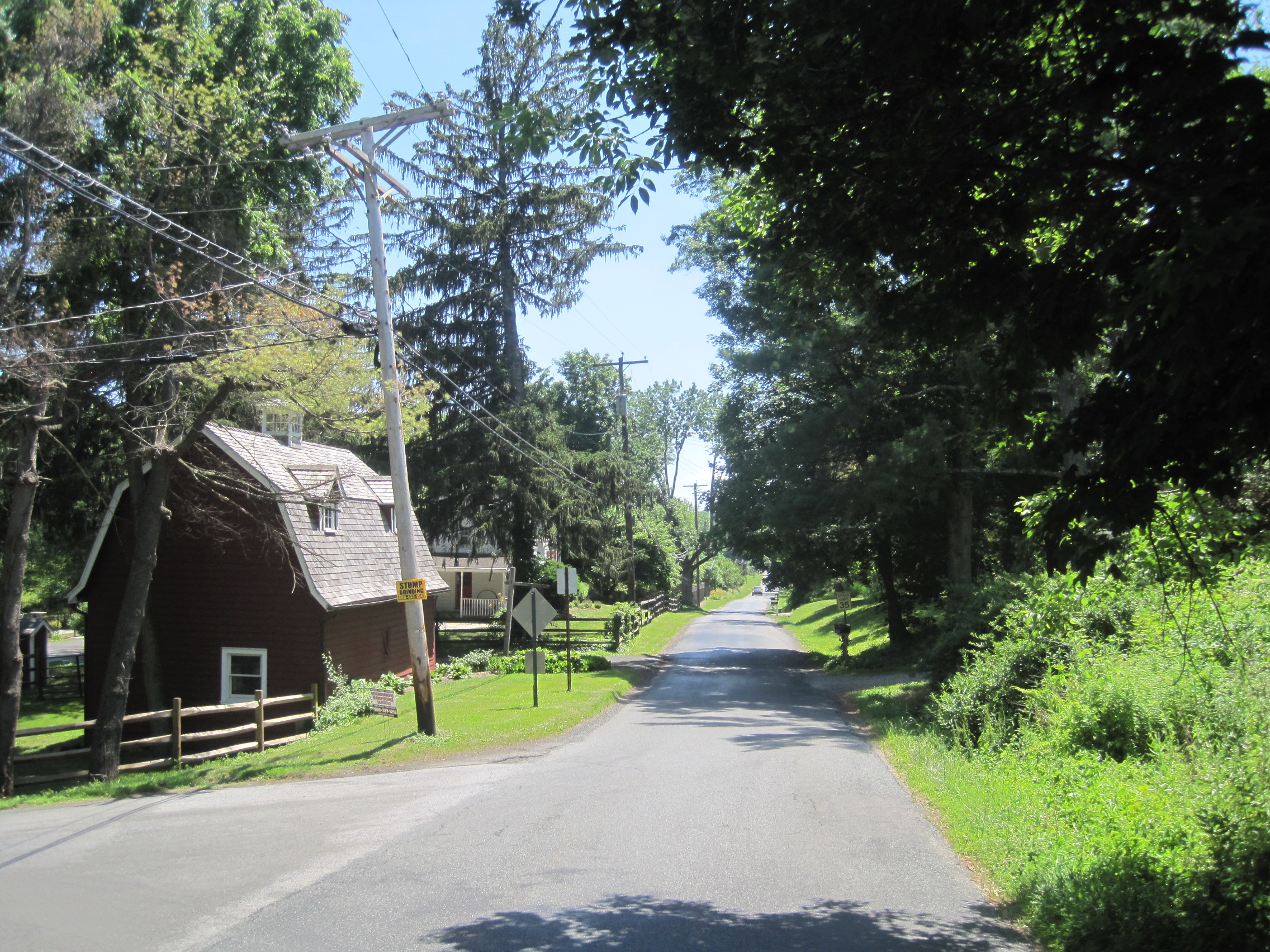 Photo of Snydertown, New Jersey, an unincorporated community within East Amwell Township. Photo taken along southbound Linvale Road at Snydertown Road.